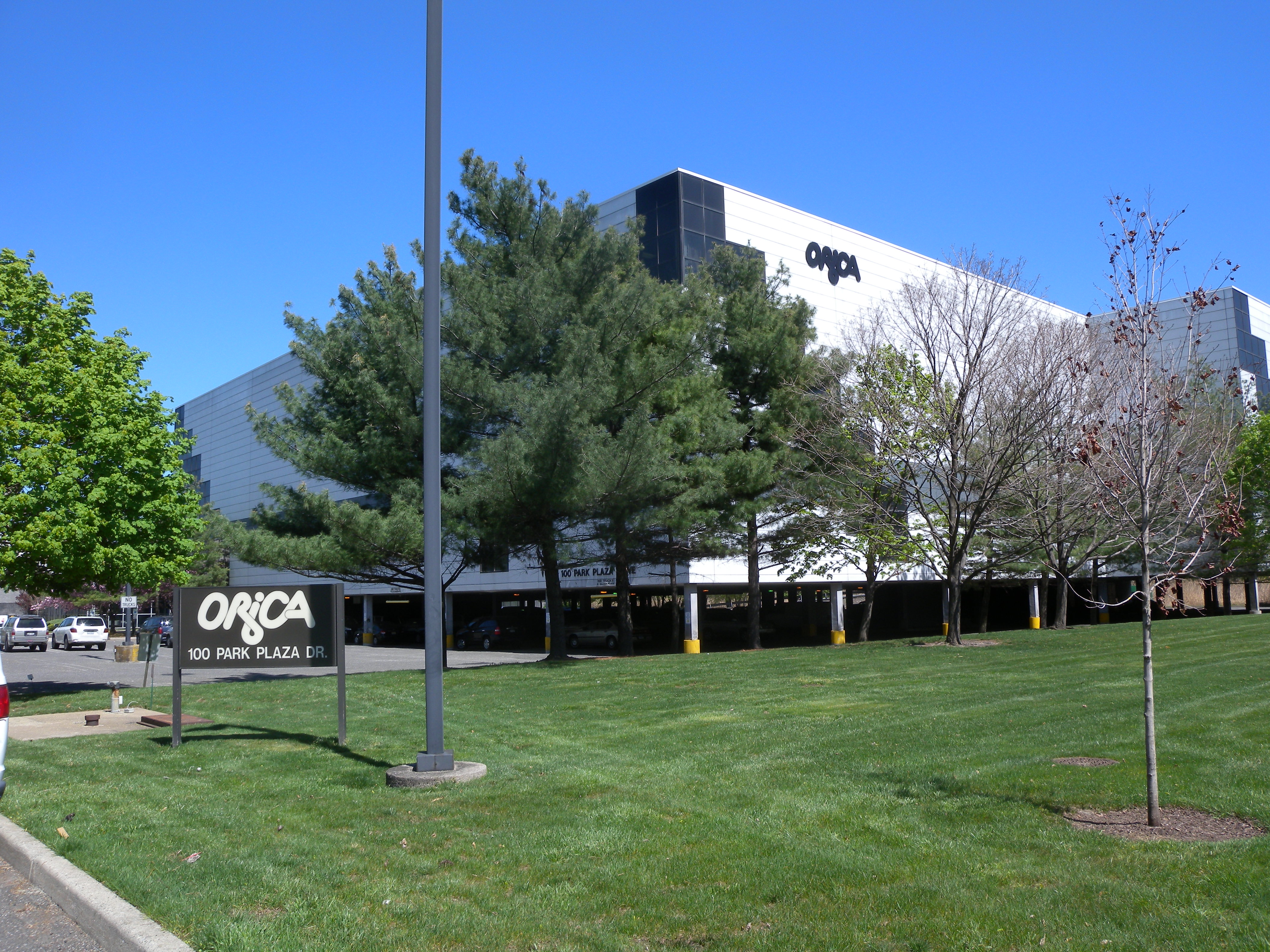 Looking northeast at the ORICA rug wholesaler on a sunny midday.